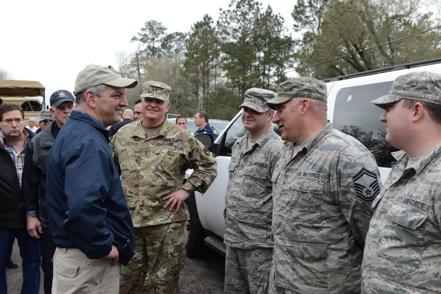 Gov. John Bel Edwards surveys flooded areas and thanks Louisiana National Guardsmen who have been assisting local agencies around the clock in Ponchatoula, Louisiana, March 12, 2016. (U.S. Air National Guard photo by MSgt. Toby M. Valadie)